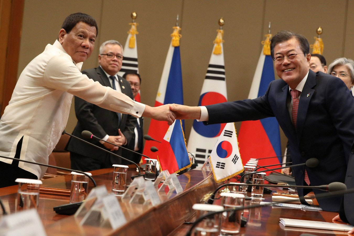 President Rodrigo Roa Duterte and Republic of Korea President Moon Jae-in shake hands prior to the start of the bilateral meeting at the Blue House in Seoul on June 4, 2018. Also in the photo are Trade and Industry Secretary Ramon Lopez and Agriculture Secretary Emmanuel Piñol.